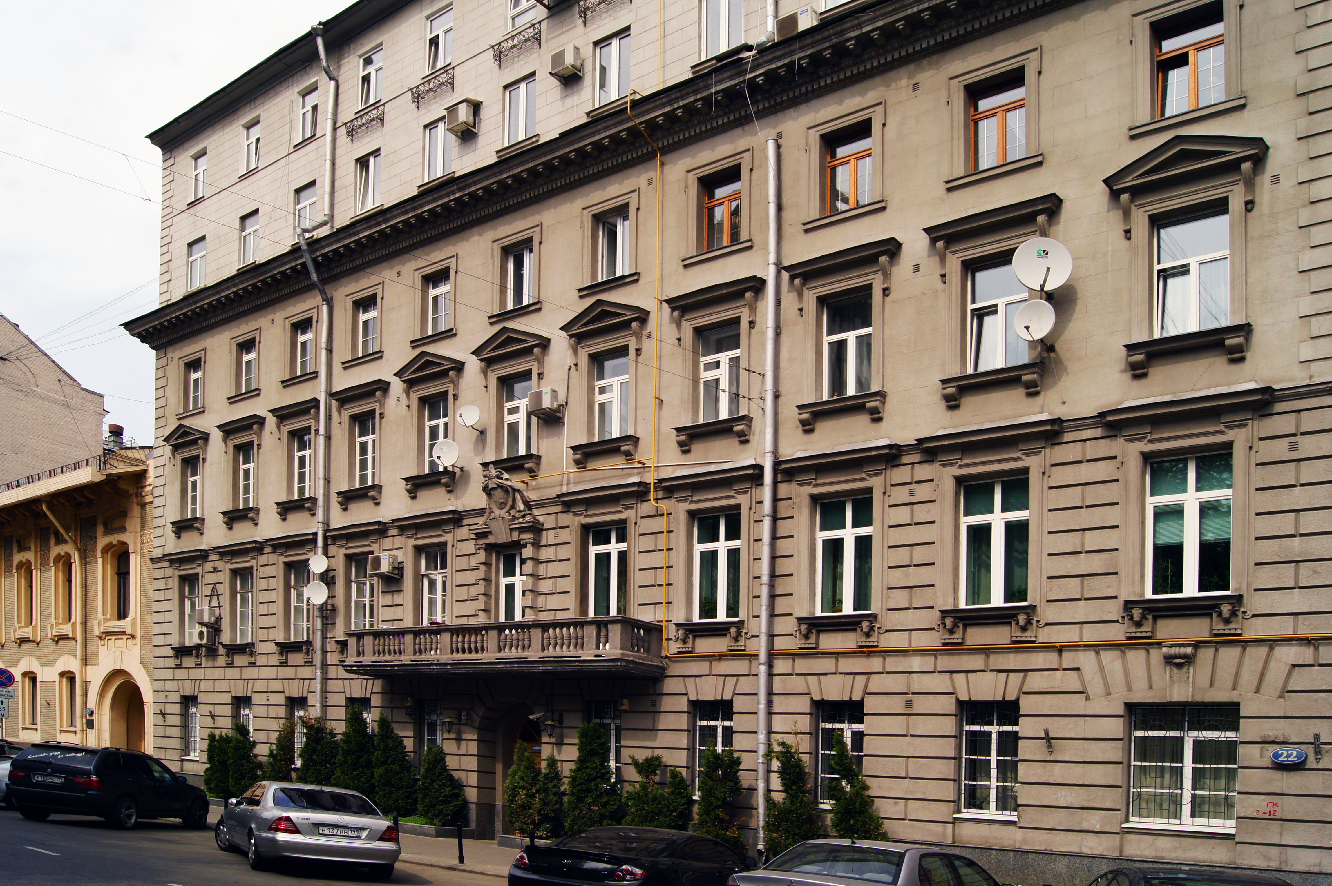 Povarskaya Street Moscow 22